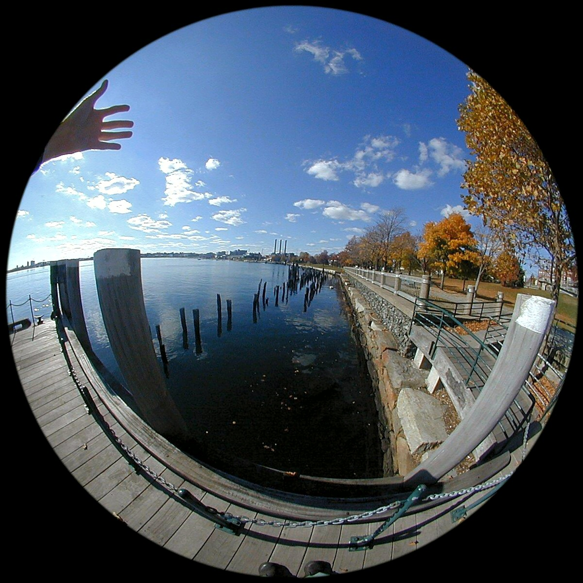 Fisheye photo